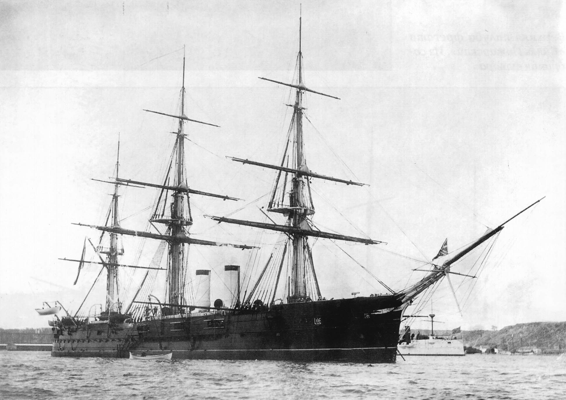 Imperial Russian semi-armoured frigate Gertsog Edinburgskiy.